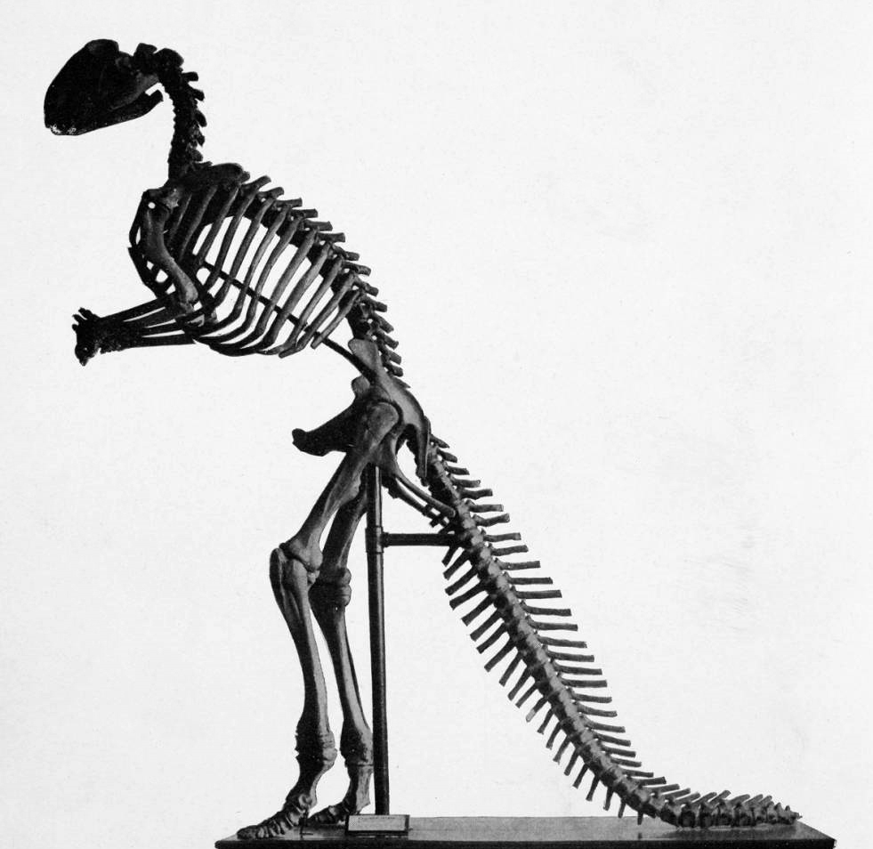 Skeleton of Trachodon (Hadrosaurus) as restored by B. Waterhouse Hawkins. Lucas, Frederic Augustus, 1868 [1904]. Plate LXXIII.